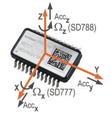 SD777 / SD788 FAIL-SAFE SINGLE AXIS GYROSCOPE & TRIPLE AXIS ACCELEROMETER